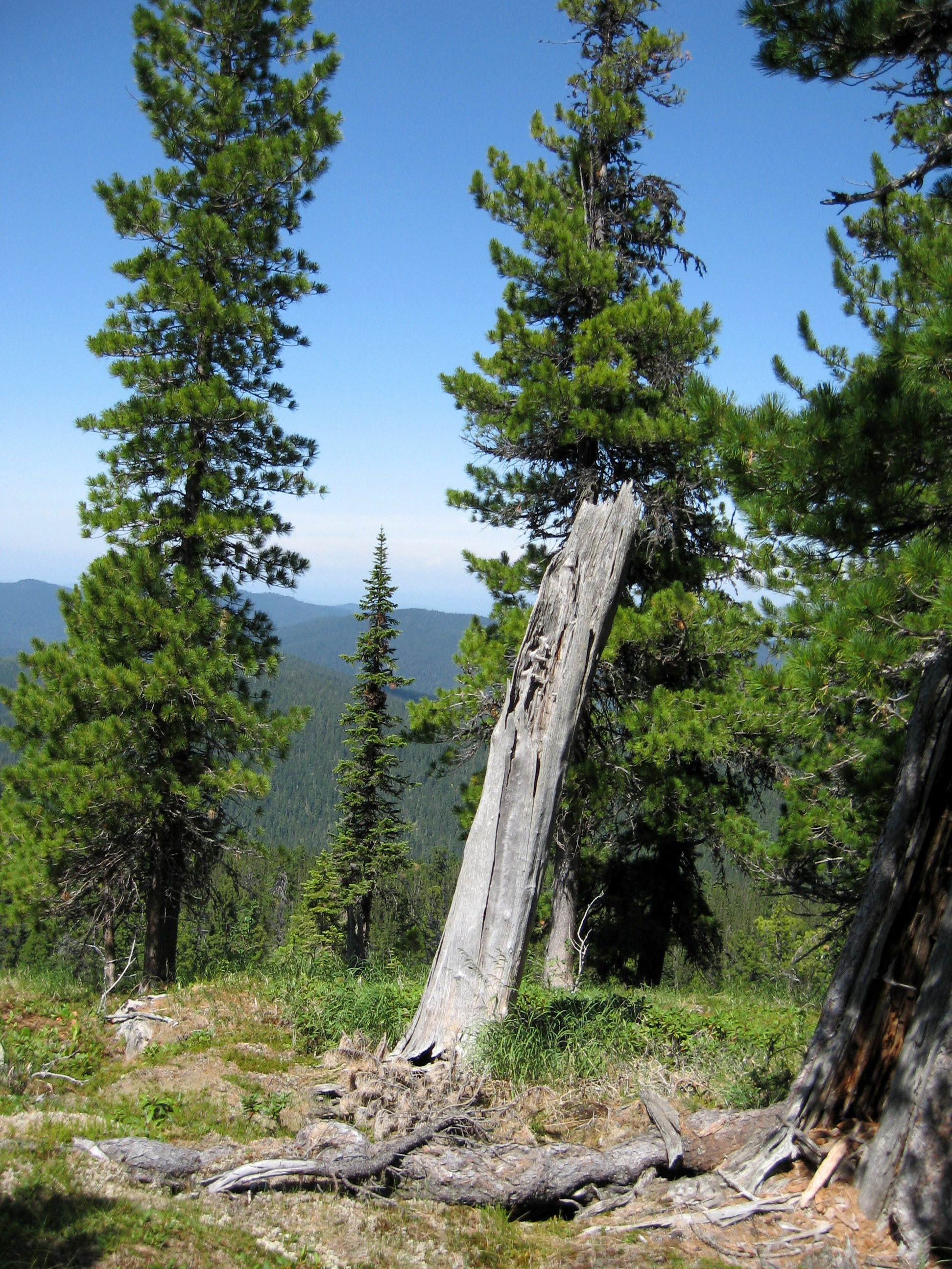 General view of species. Russia, Krasnoyarsk region, West Sayan, Ambuk mountain, near upper limit of forest.